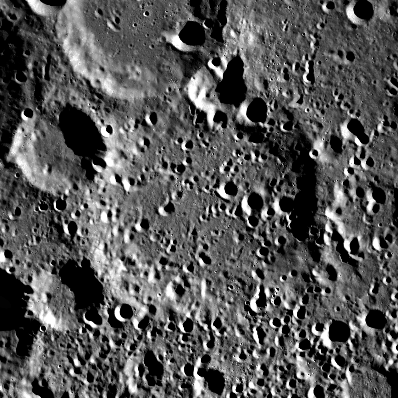 Crater Berlage on the Moon, in southern part of the far side. Mosaic of photos by Lunar Reconnaissance Orbiter, made with Wide Angle Camera. Size of the image is 150×150 km, north is up.